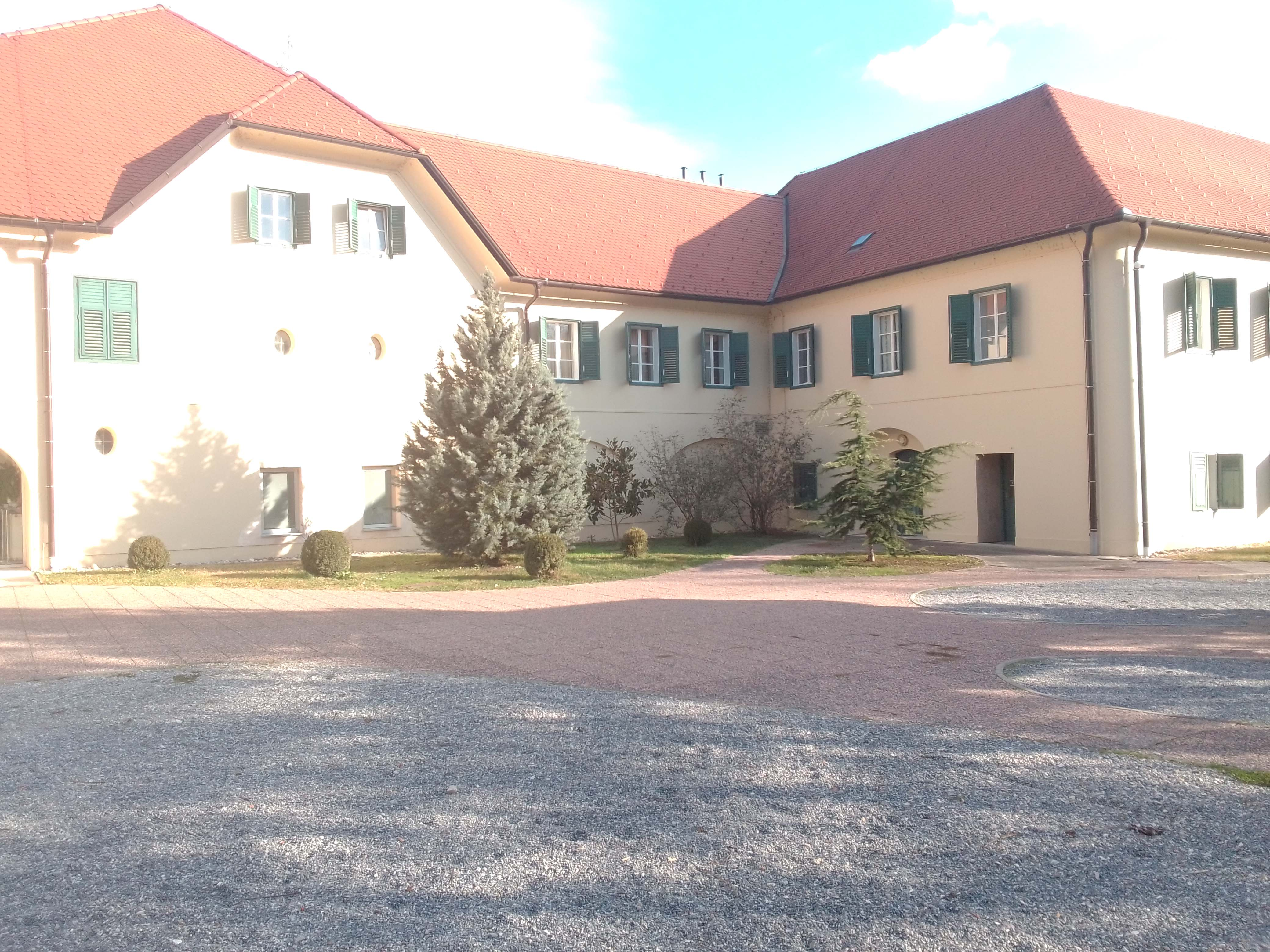 Maksimilijan, the oldest part of the rehabilitation center